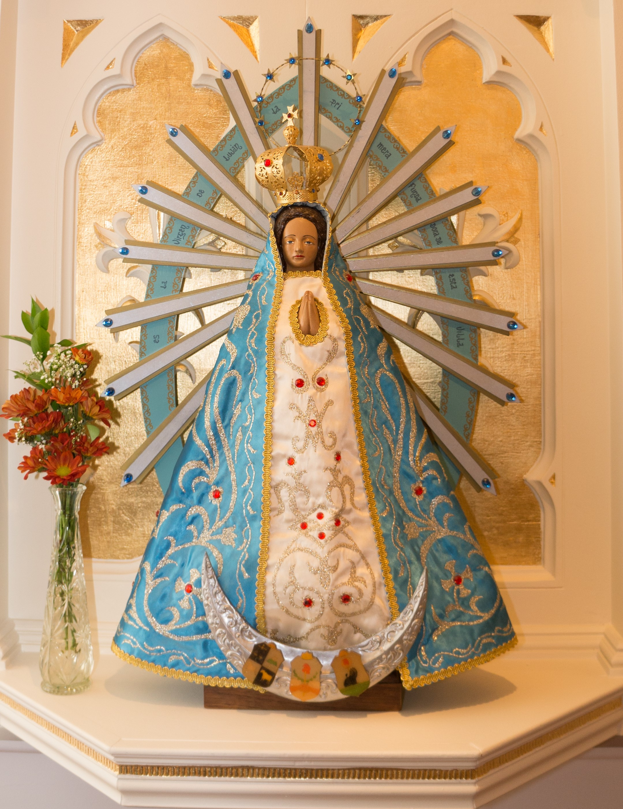 Statue of Our Lady of Lujan in the Institute's seminary in the United States.